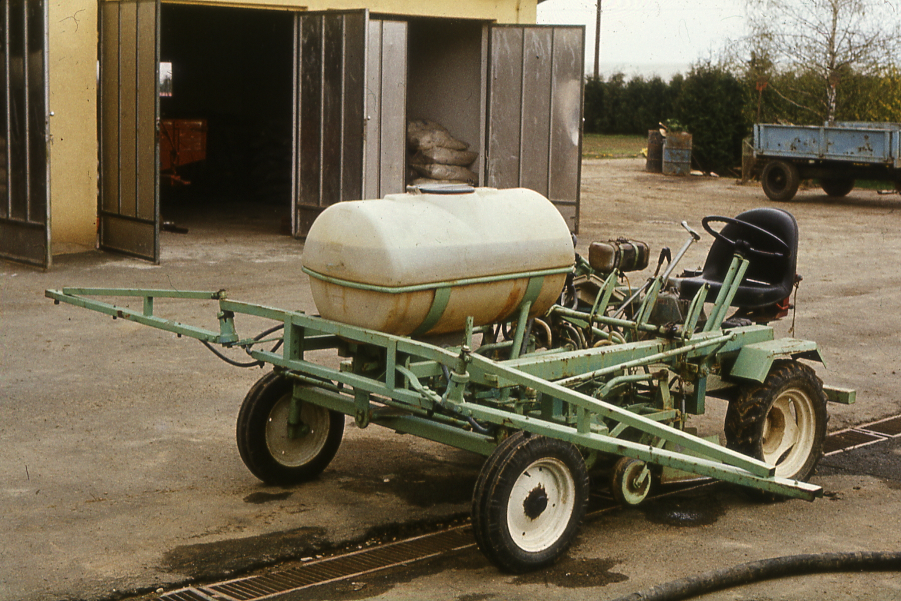 Implement-carrier tractor Rath, Austria